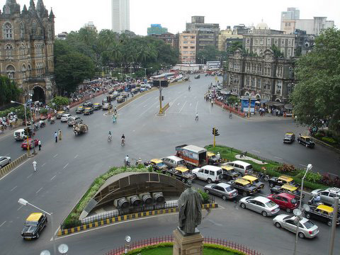 Sir Pherozeshah Mehta Statue stands in front of BMC HQ and opposite another iconic building the CSMT